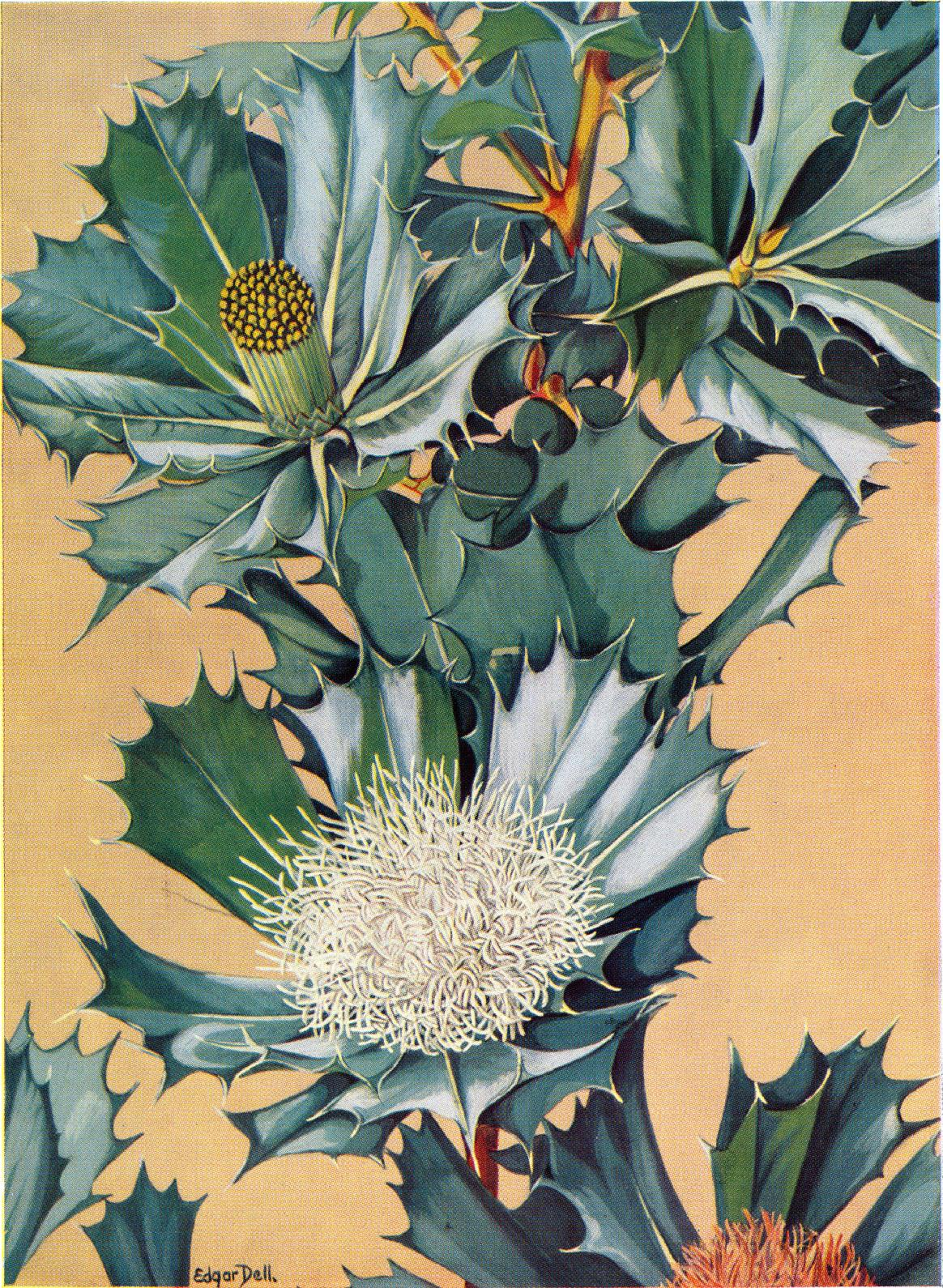 Banksia sessilis (formerly Dryandra sessilis)